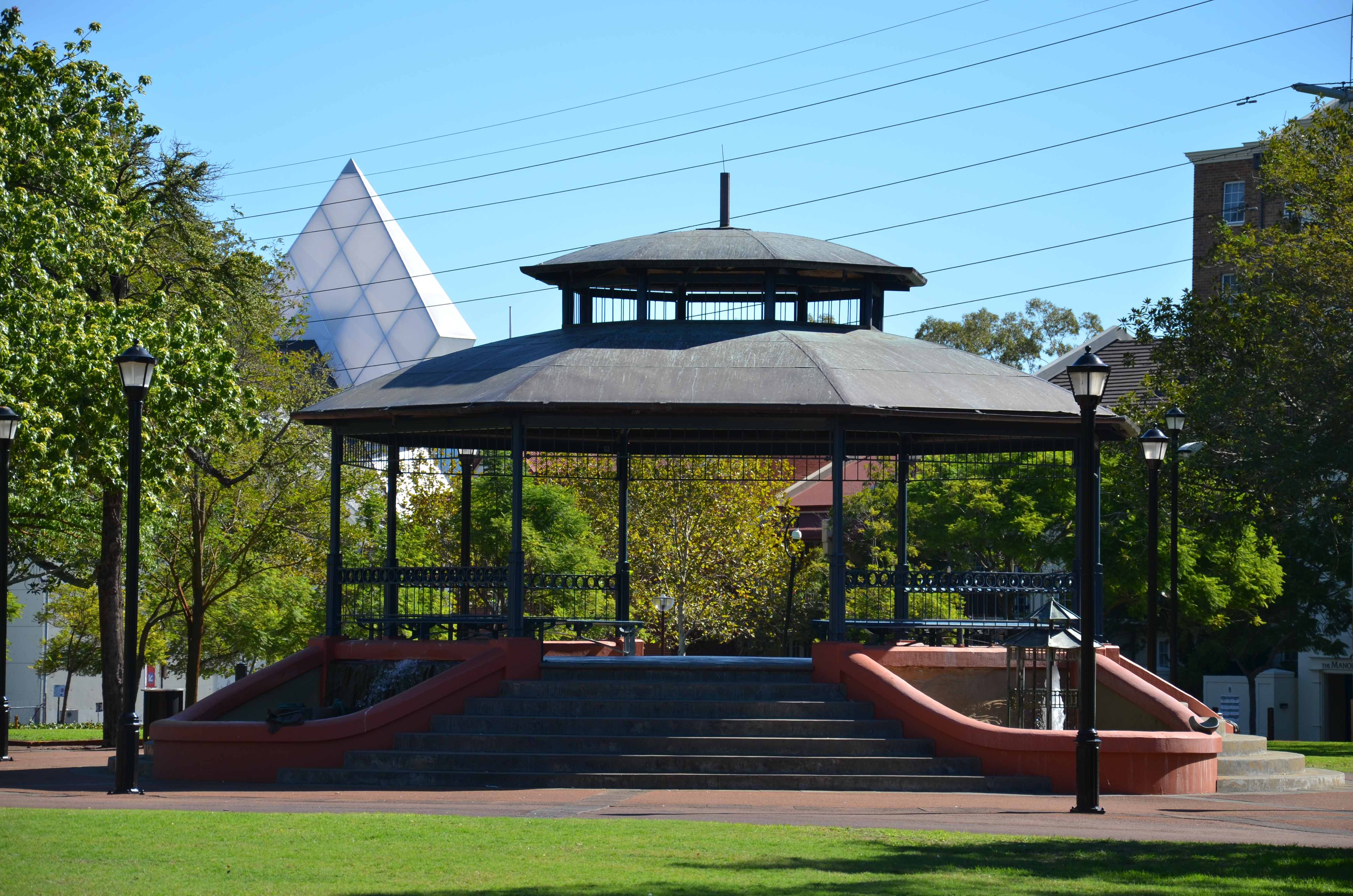 Bandstand at centre of Russell Square, Perth with the roof of Perth Arena on left hand side skyline